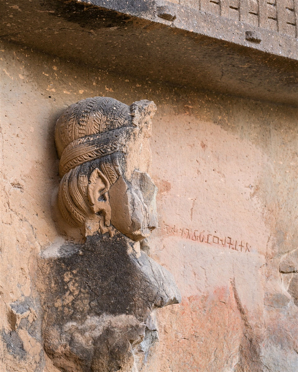 Kondana half head